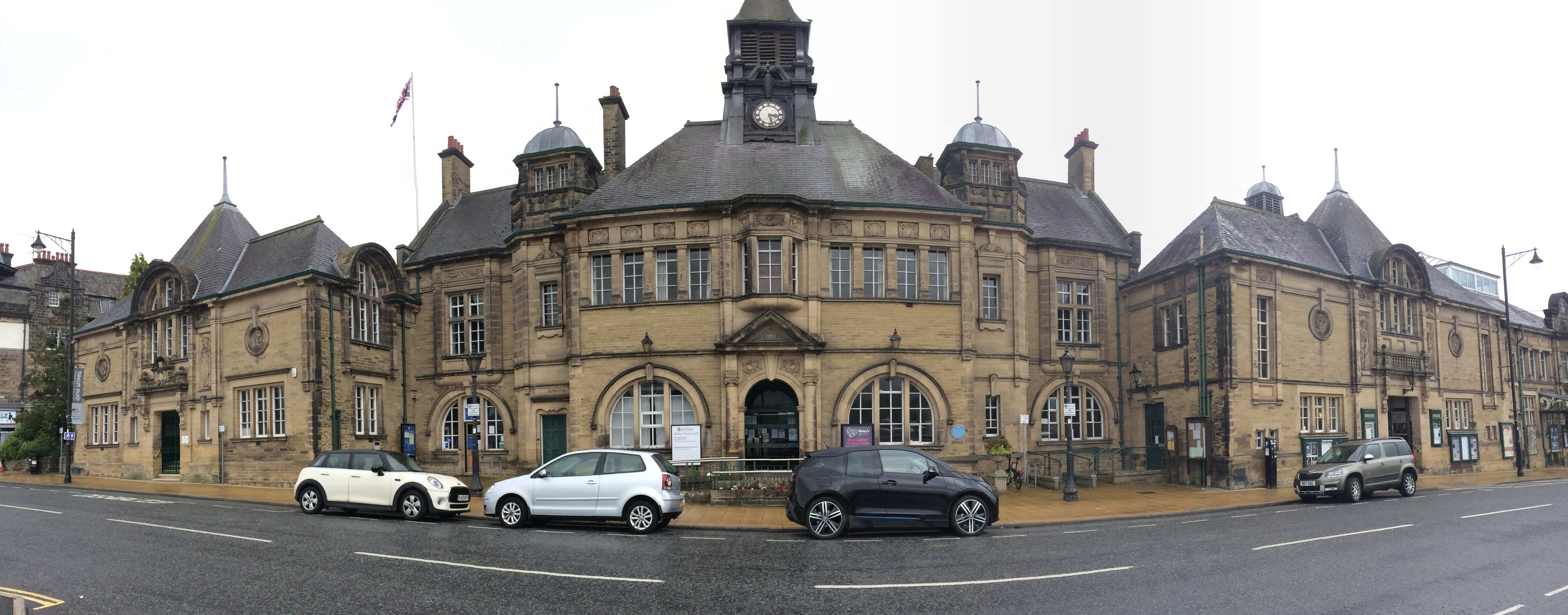 Ilkley Town Hall